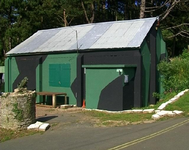 WWII Display in Brixham Battery Museum